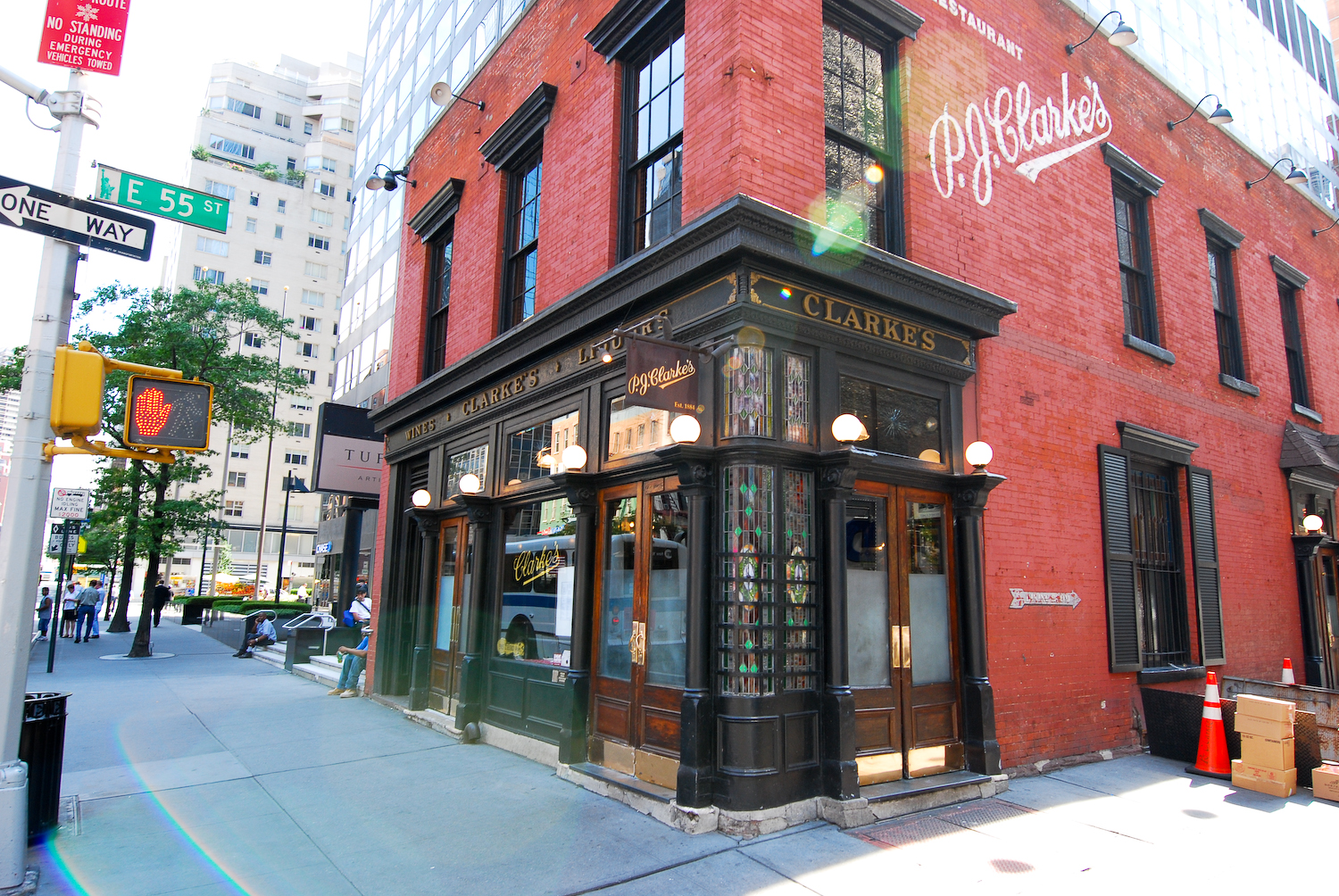 P.J. Clarke's saloon on 3rd Avenue, New York